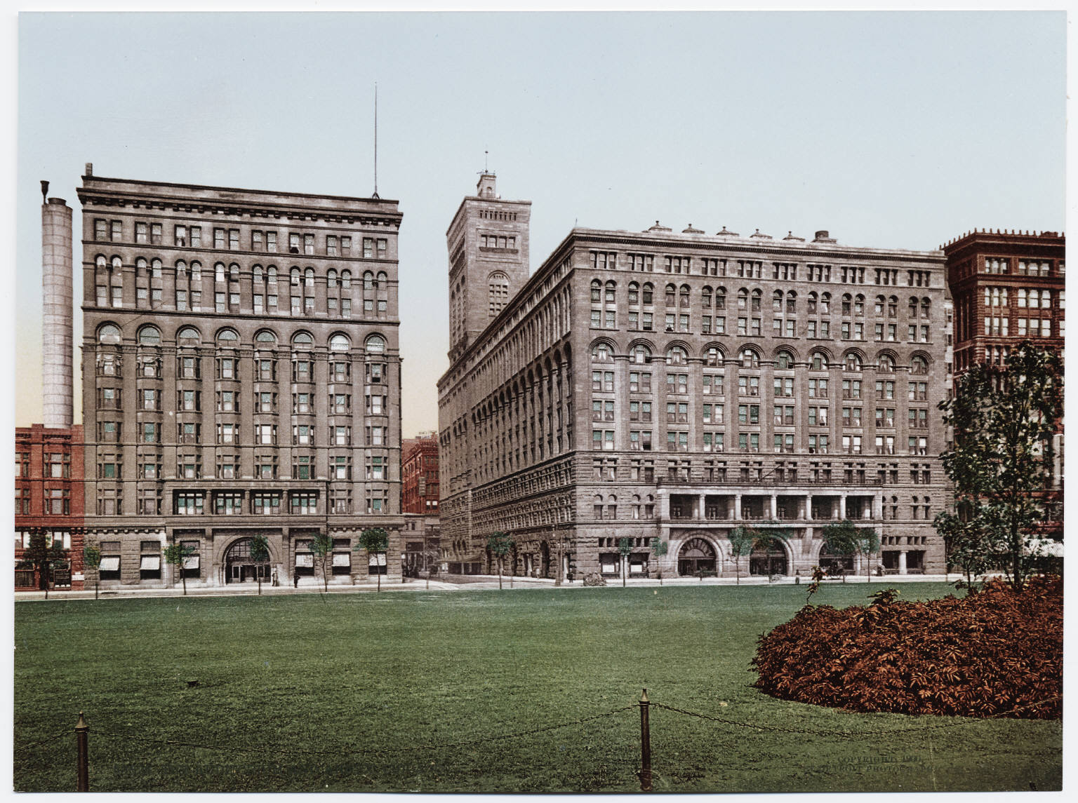 A photochrom postcard published by the Detroit Photographic Company. Looking towards South Michigan Avenue, Chicago and the junction with East Congress Parkway in the center. The building on the left is the north tower of Auditorium Annex, now known as the Congress Plaza Hotel. On the right is the Auditorium Building.